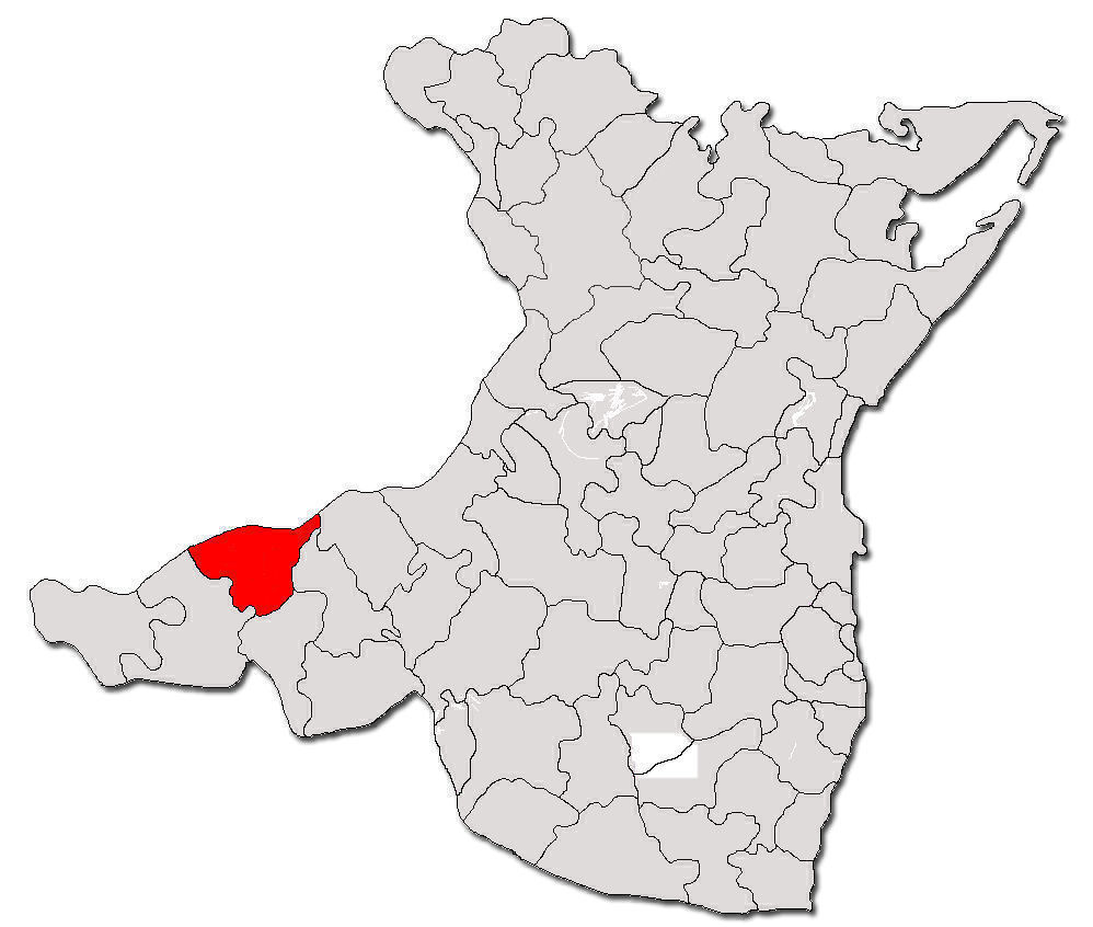 Countour map of Mihai Viteazu commune